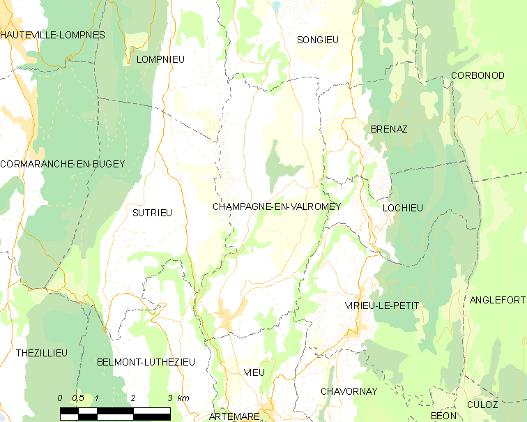 Map of French commune: Champagne-en-Valromey Map commune FR insee code 01079.png